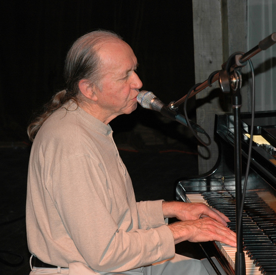 Bob Dorough